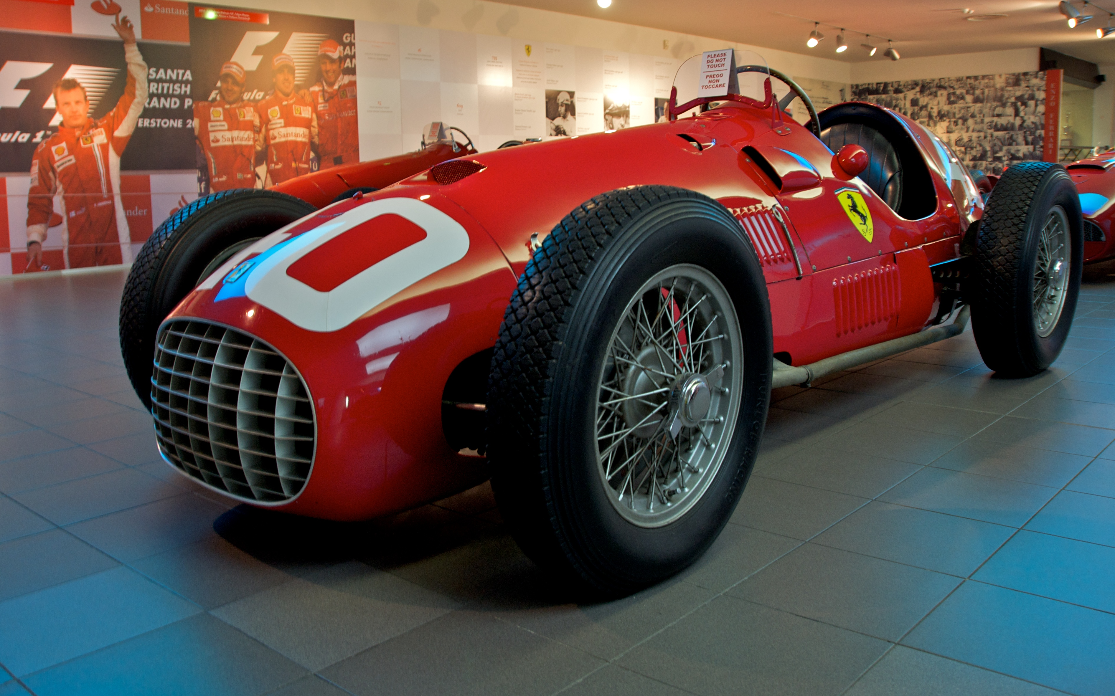 The 166 F2 readied specifically for Formula 2 was developed hand-in-glove with the 125 F1. It made a victorious debut at the Florence Grand Prix on September 26th 1948 with Raymond Sommer at its wheel. Constantly updated and honed, it clocked up an impressive number of wins between then and the end of 1951 when it was replaced by the 500 F2. The 166 F2’s most notable victory was in the 1950 German Grand Prix in which it was driven by Alberto Ascari.